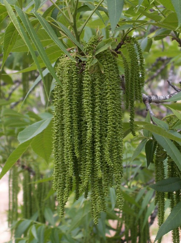 Flowers of a pecan Carya illinoinensis photographed in Hadera, Israel.